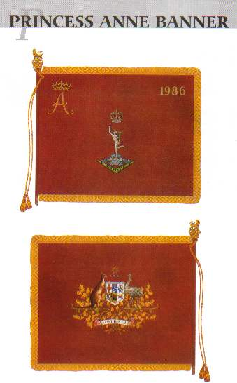 The Princess Anne Banner of the Royal Australian Corps of Signals